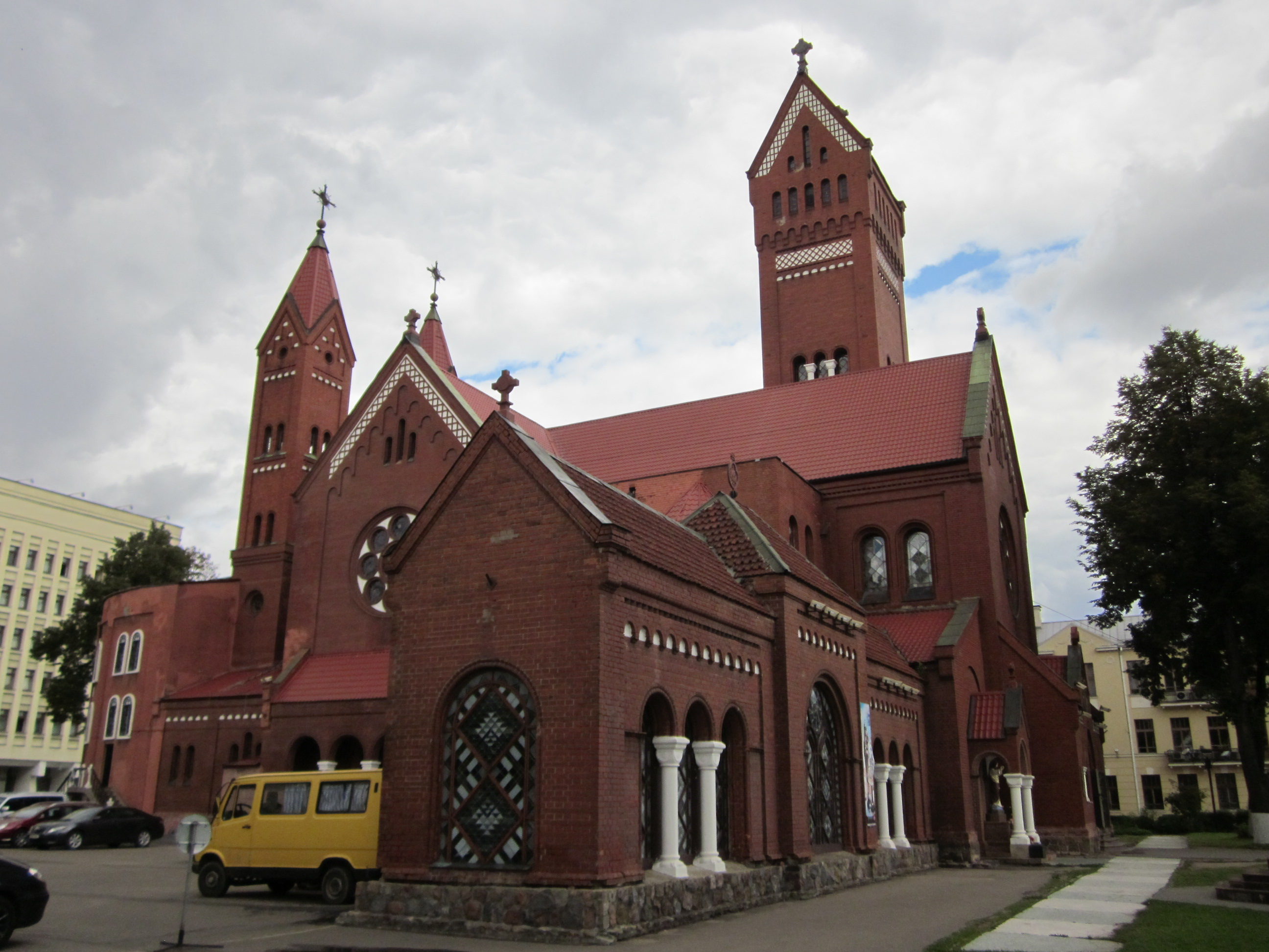 Roman-Catholic church of Saints Simon and Helena, Minsk, Belarus